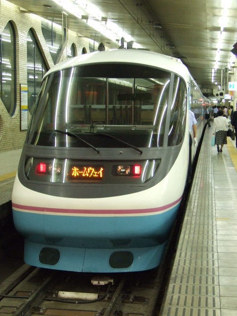 〝Homeway〟of Model 20000 -Odakyu RomanceCar RSE-,Odakyu Electric Railwey,Japan